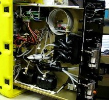 Picture showing the internal components of GeoStrata Technologies, Inc. Eclipse Gas Detector and Gas Chromatograph.